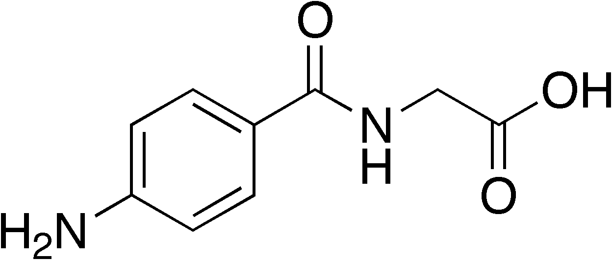 chemical structure of aminohippuric acid